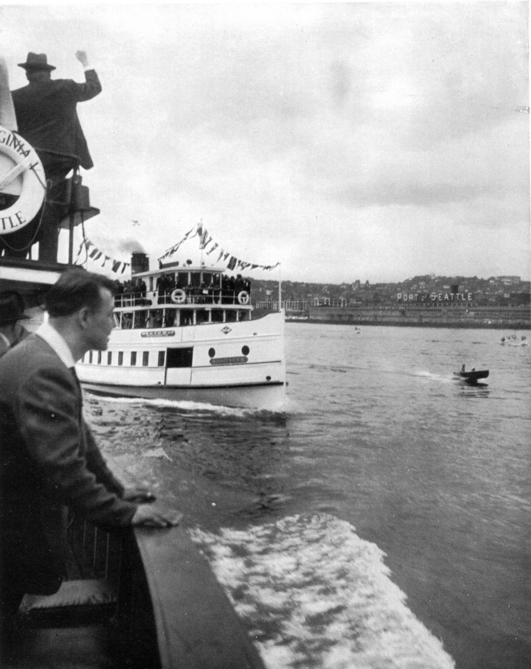 Exhibition race between steamboats Virginia V and Sightseer, May 22, 1948.